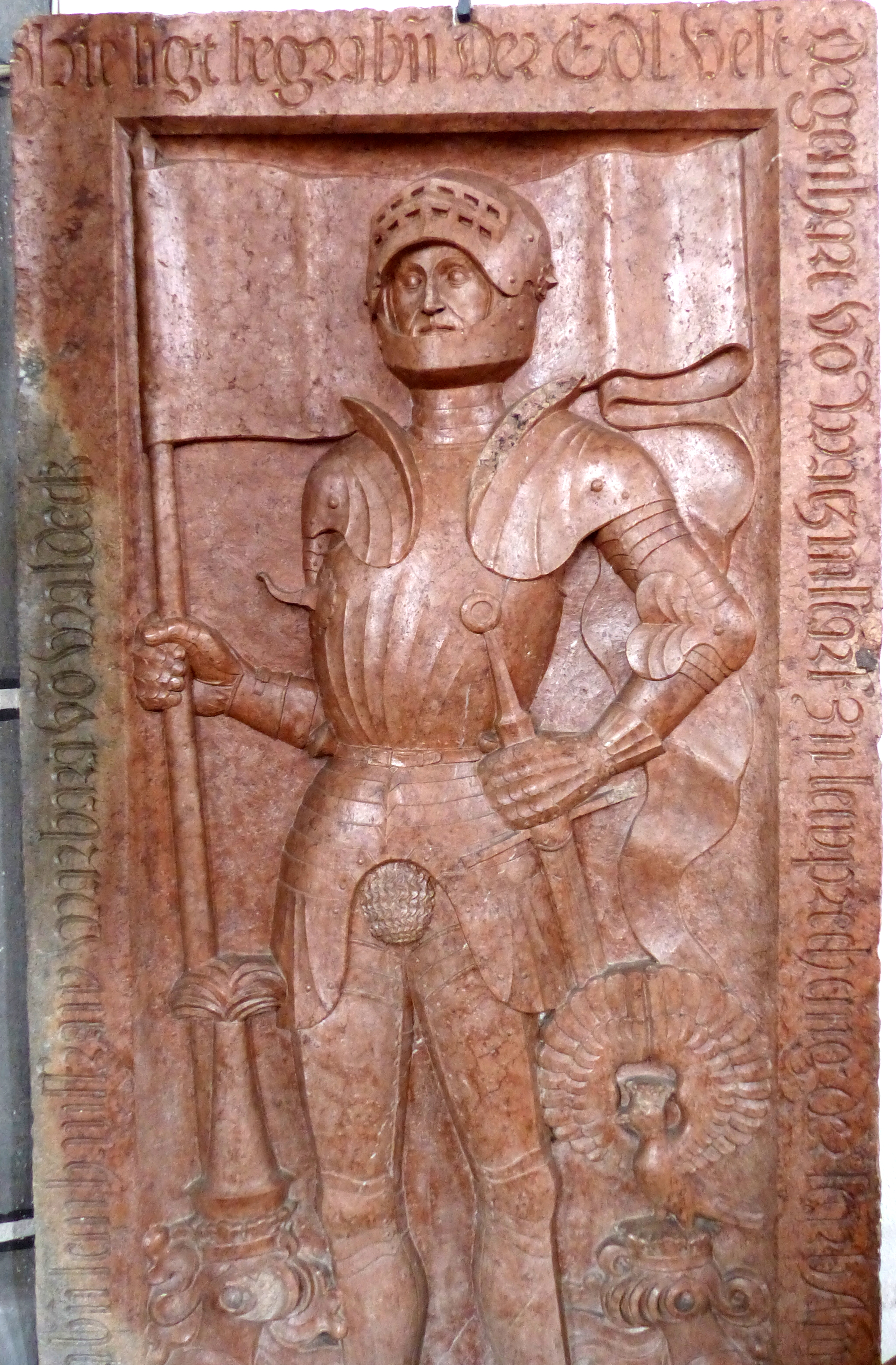 Kellberg ( Lower Bavaria ). Saint Blaise parish church ( 15th century ) - Grave monument for Degenhart II of Watzendorf ( + 1506 ), by Jörg Gartner.This is a photograph of an architectural monument.